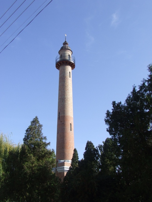 the Firemans Tower in Satu Mare, Romania